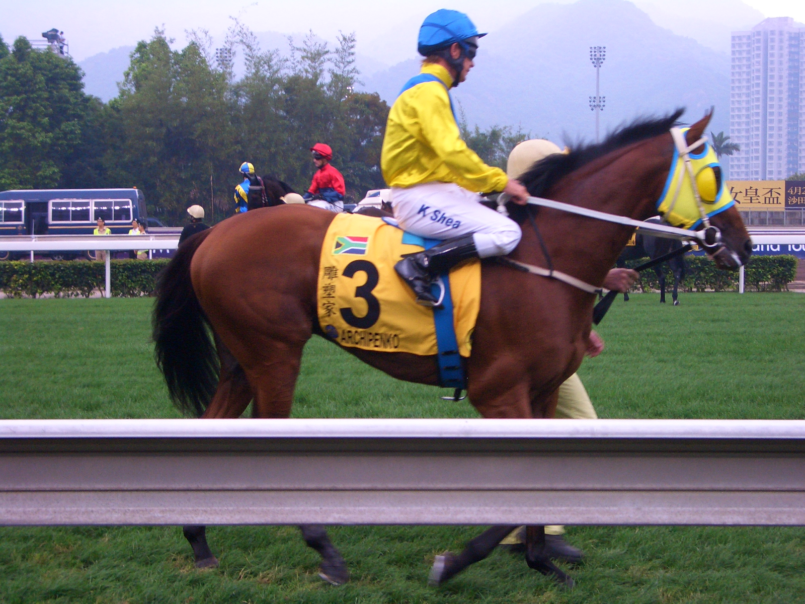 US-born horse Archipenko, winner of 2008 QE II Cup in Ireland